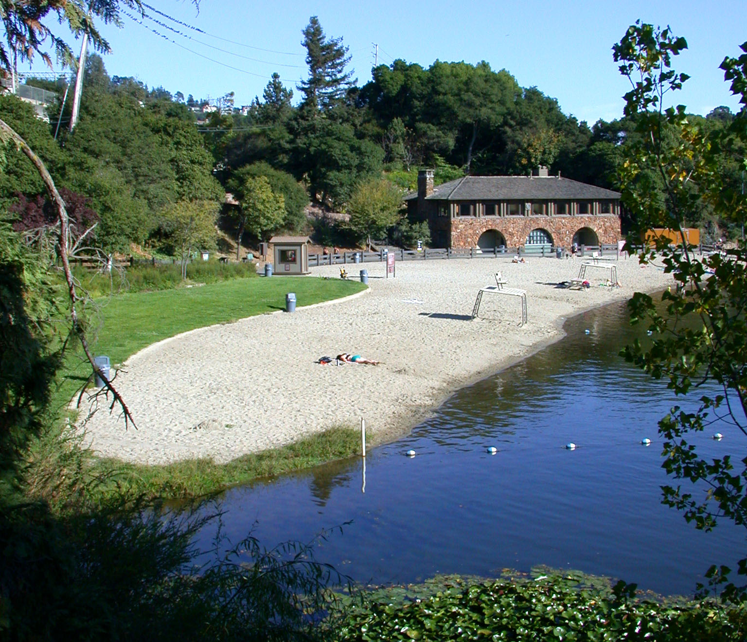 Lake Temescal in Temescal Regional Park — in the Berkeley Hills, northeastern Oakland, California. Part of the East Bay Regional Parks District.